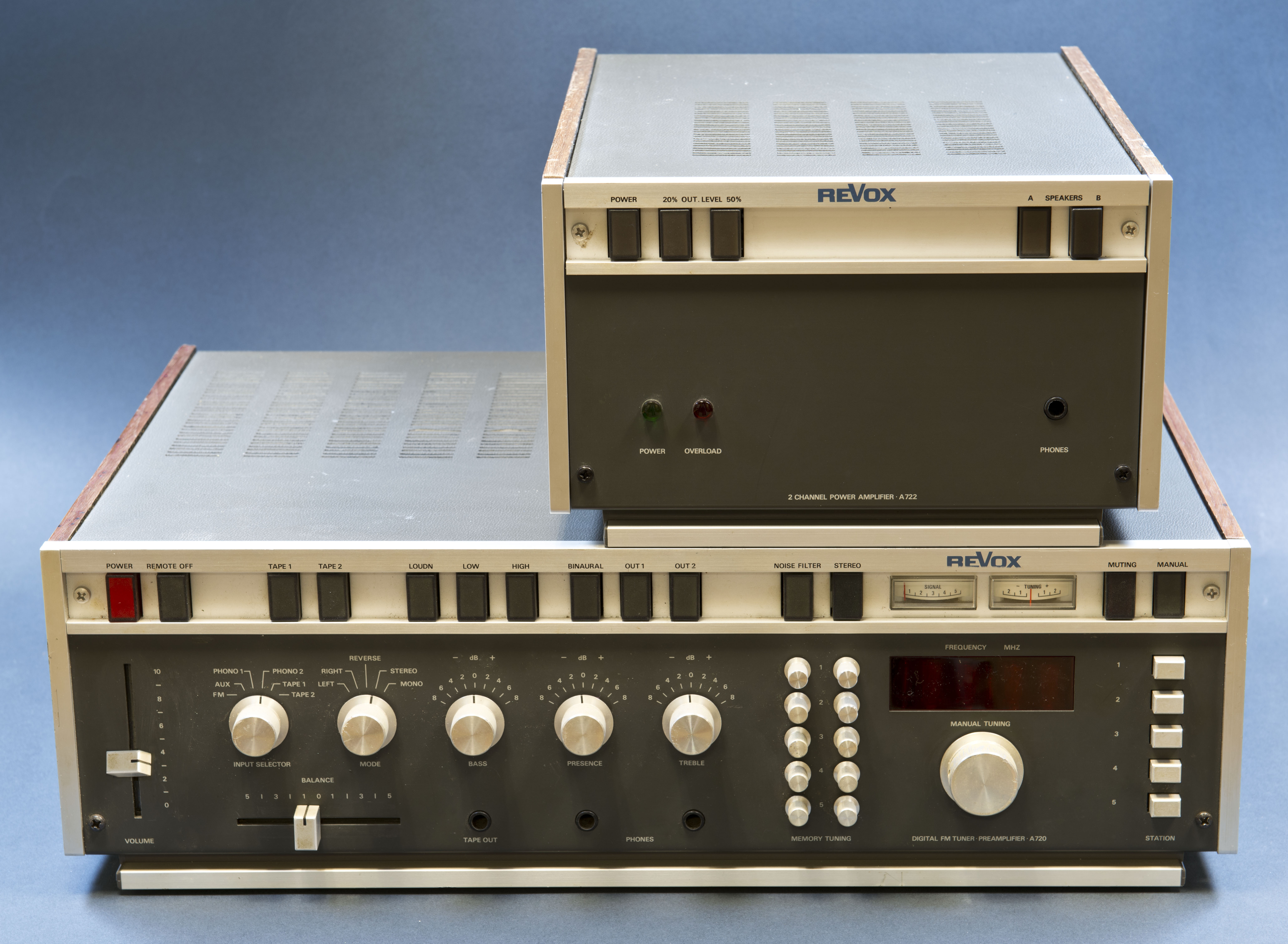 Premplifier A720 and Amplifier A722 (top) by Studer-Revox; Schweiz manufactured 1973-1978